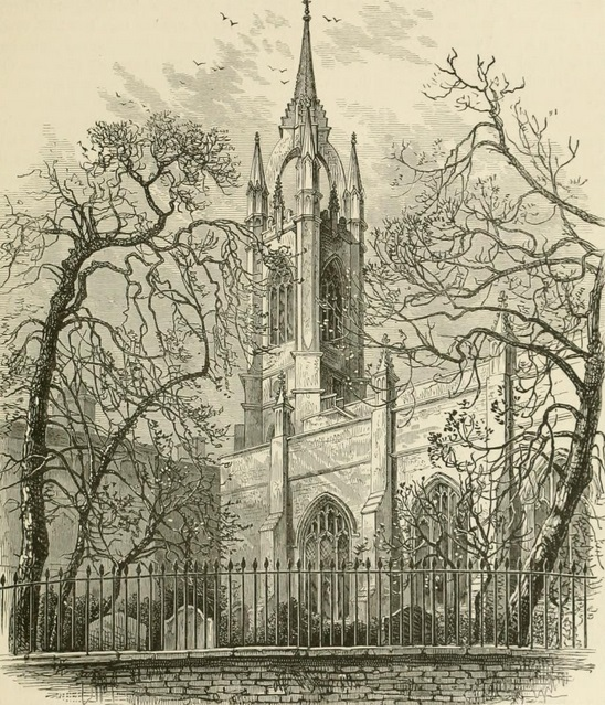 The Parish Church of St Dunstan-in-the-East, Idol Lane in the City of London. Engraving published in Church Bells, 1891.